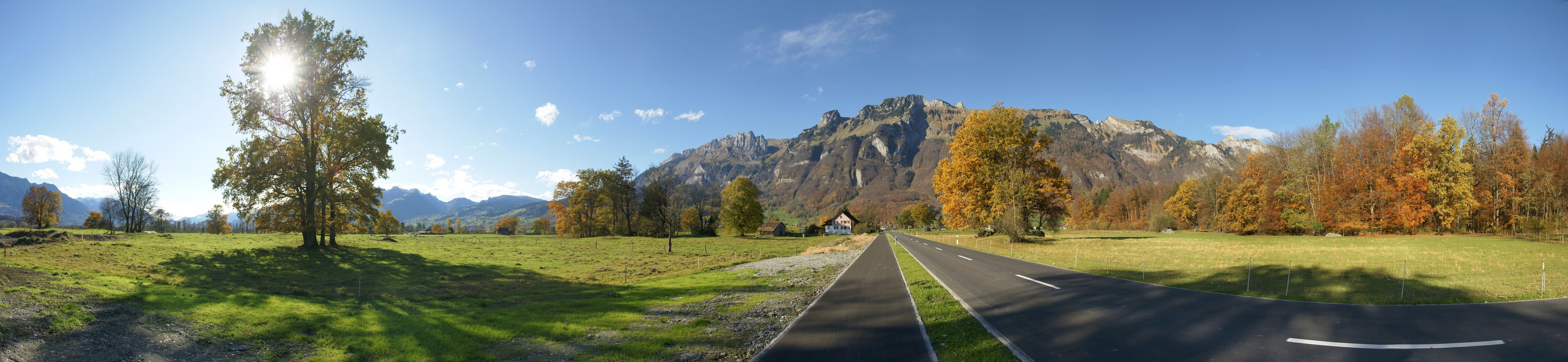 Panorama between Sax and Frümsen in the municipality of Sennwald in the Rhine Valley, looking from Kreuzberge (on the left), to the Appenzell Alps, Saxer Gap, the Stauberen, and Hoher Kasten on the right. NOTE: This image is a panorama consisting of multiple frames that were merged or stitched in software. As a result, this image necessarily underwent some form of digital manipulation. These manipulations may include blending, blurring, cloning, and colour and perspective adjustments. As a result of these adjustments, the image content may be slightly different from reality at the points where multiple images were combined. This manipulation is often required due to lens, perspective, and parallax distortions.